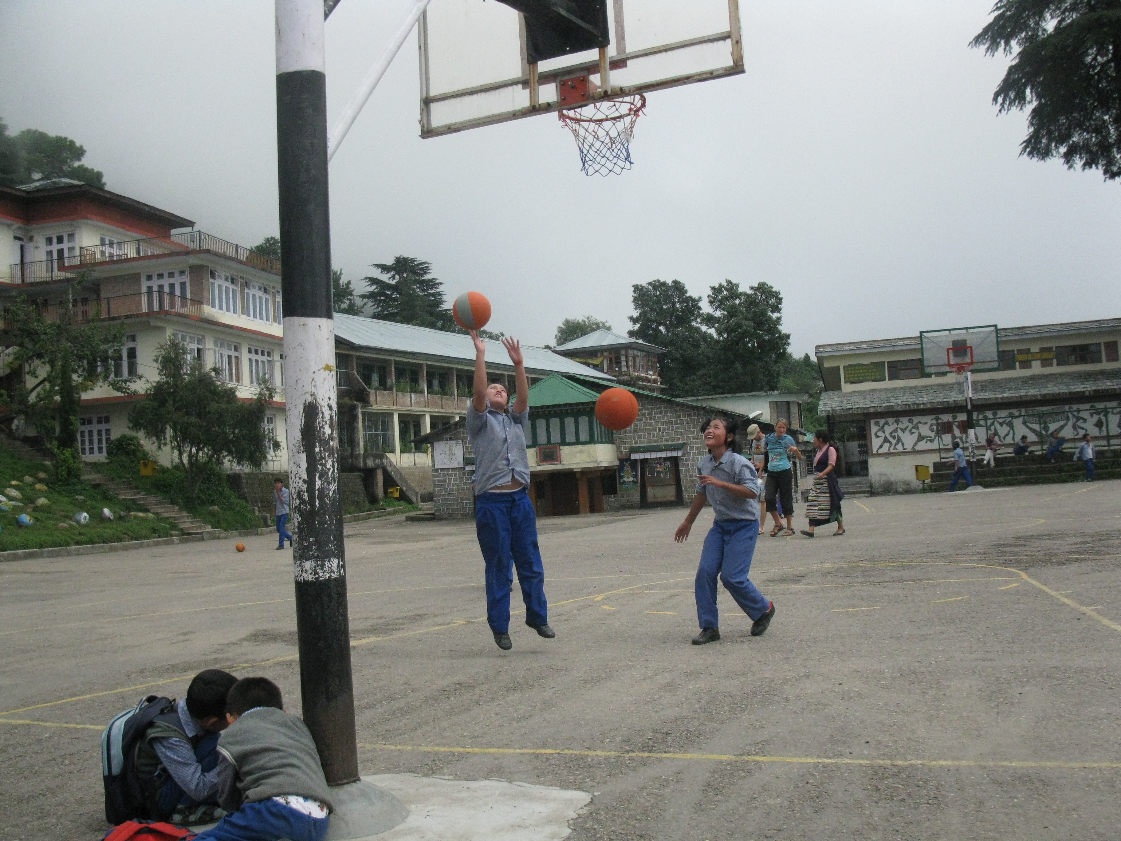 School girls playing Basketball in Dharamsala, Himachal Pradesh, India